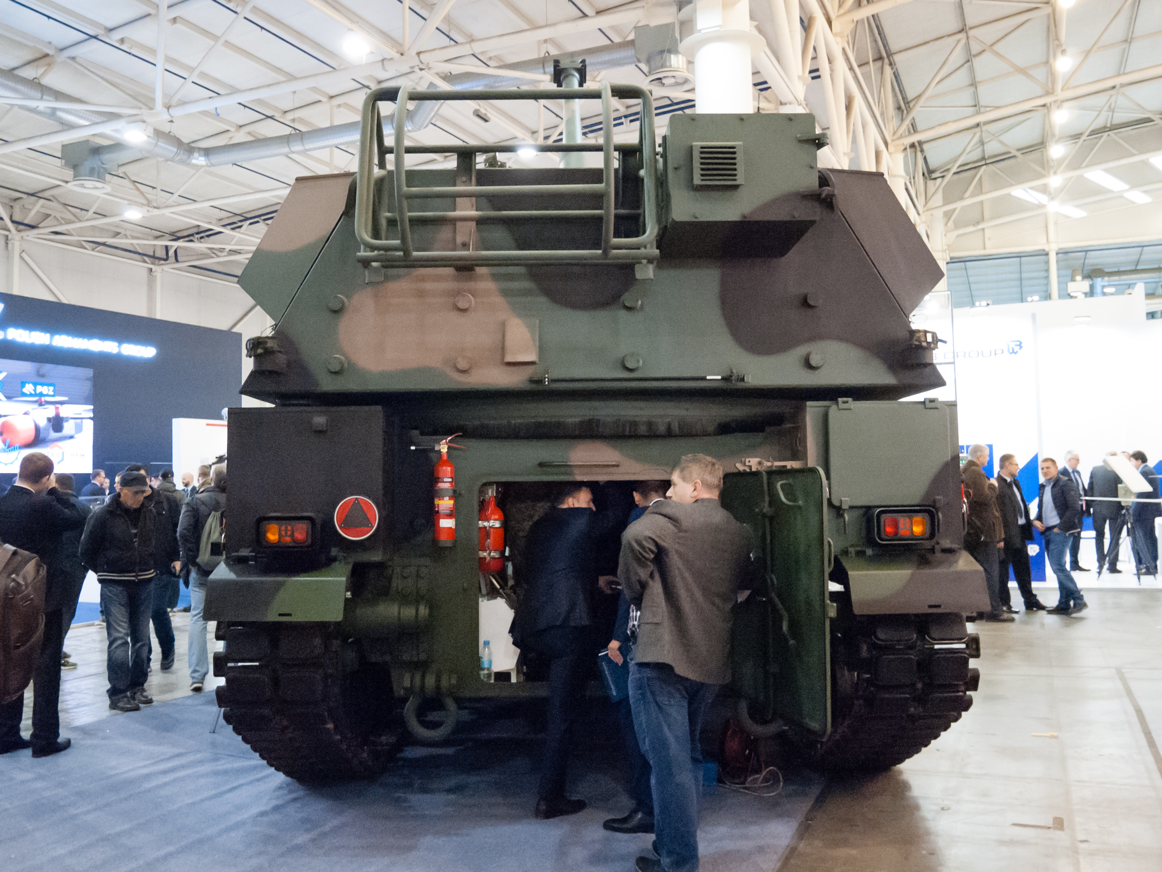 AHS Krab in Kyiv (Poland)